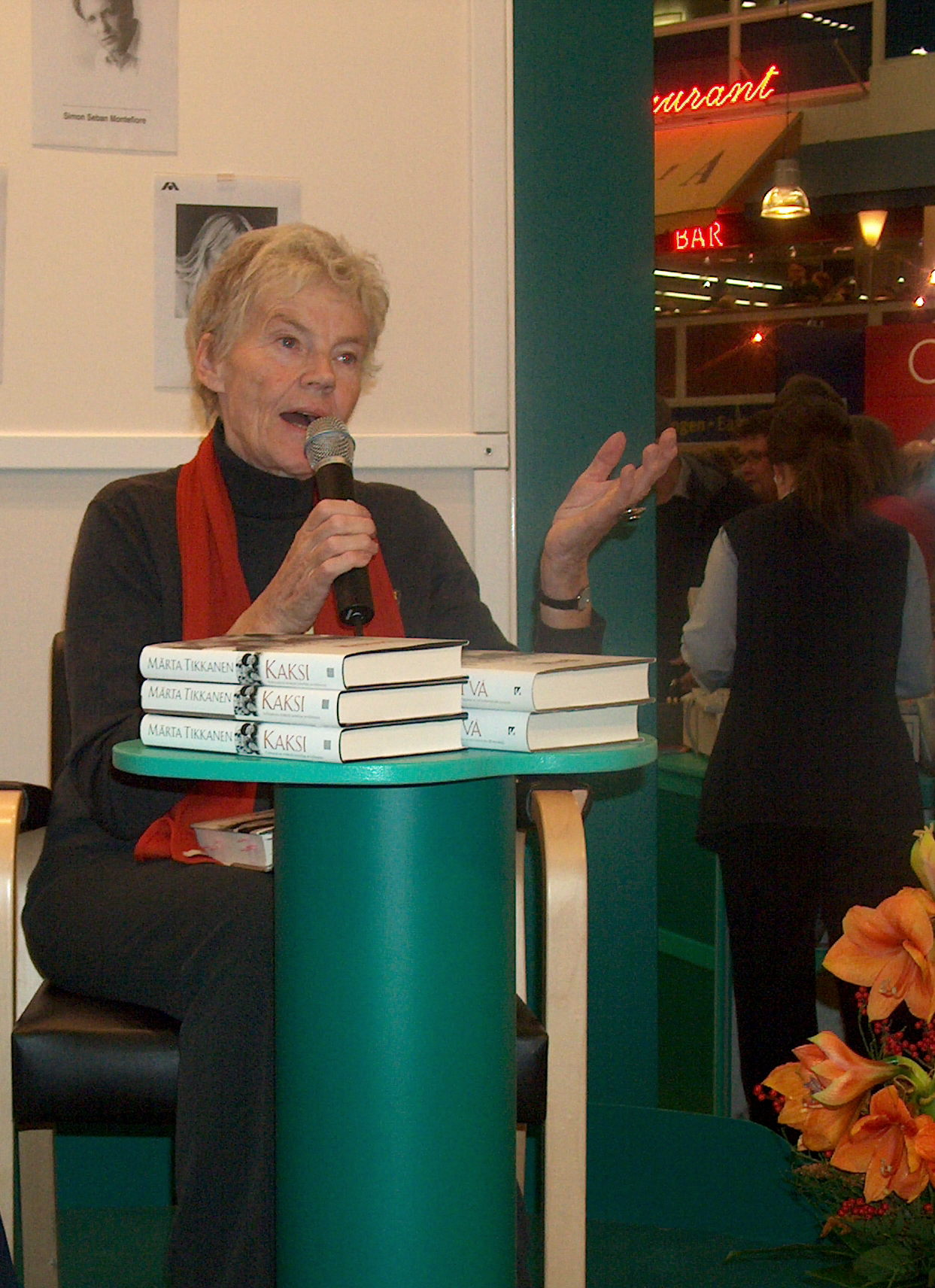 Märta Tikkanen, Finnish writer, at the Helsinki Book Fair in 2004